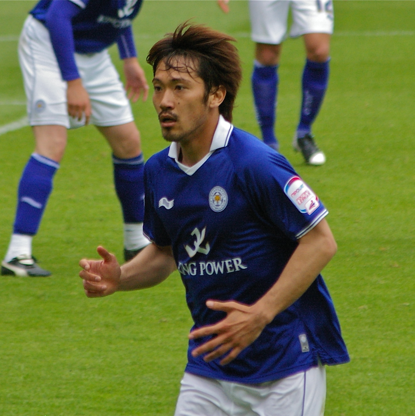 7/05/11 Leicester City F.C. v Ipswich Town F.C. , Championship, Walkers Stadium, Leicester, The UK